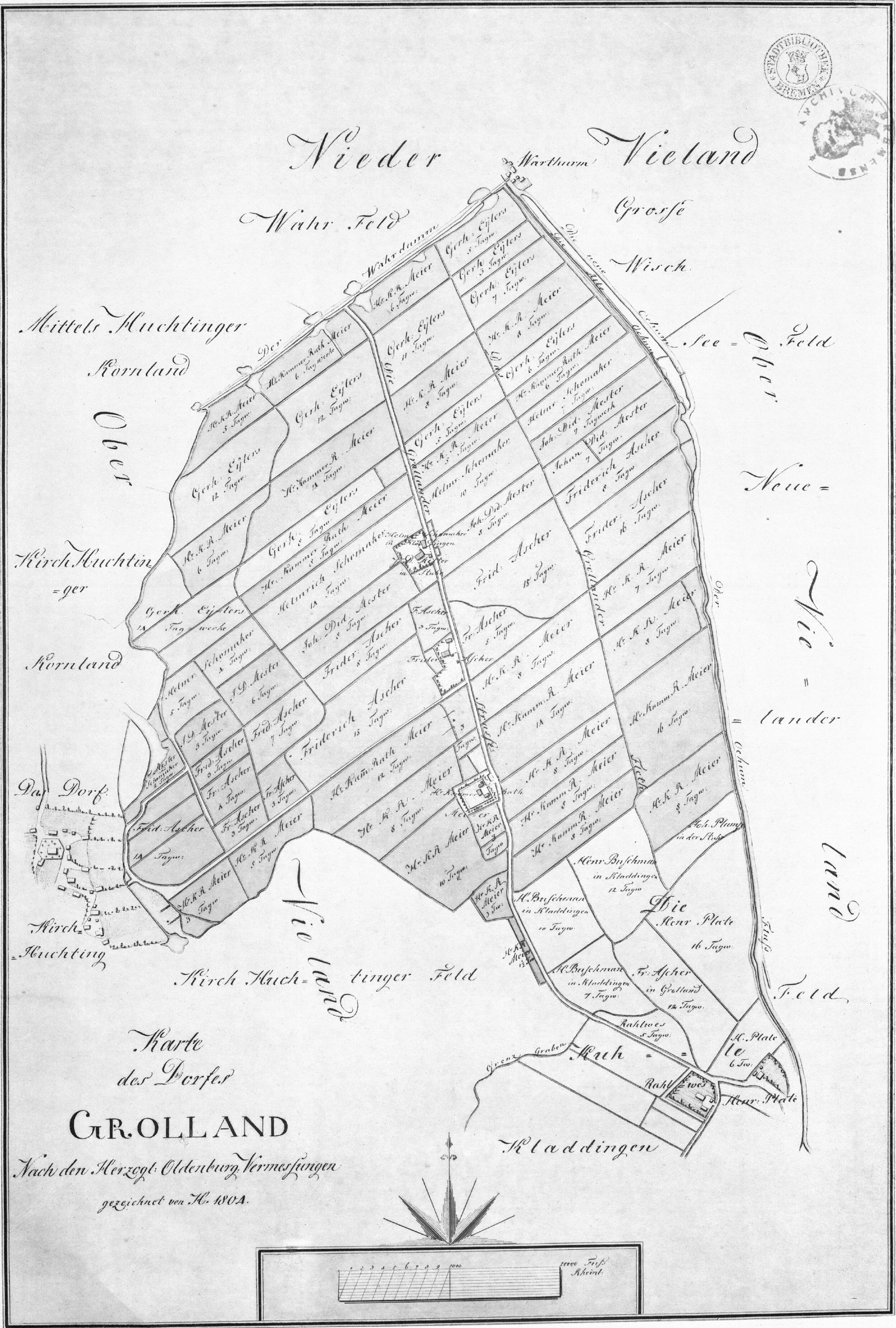 Original title: Map of Grolland village, according to the Ducal Oldenburgian survey drawn by C. A. Heineken 1804